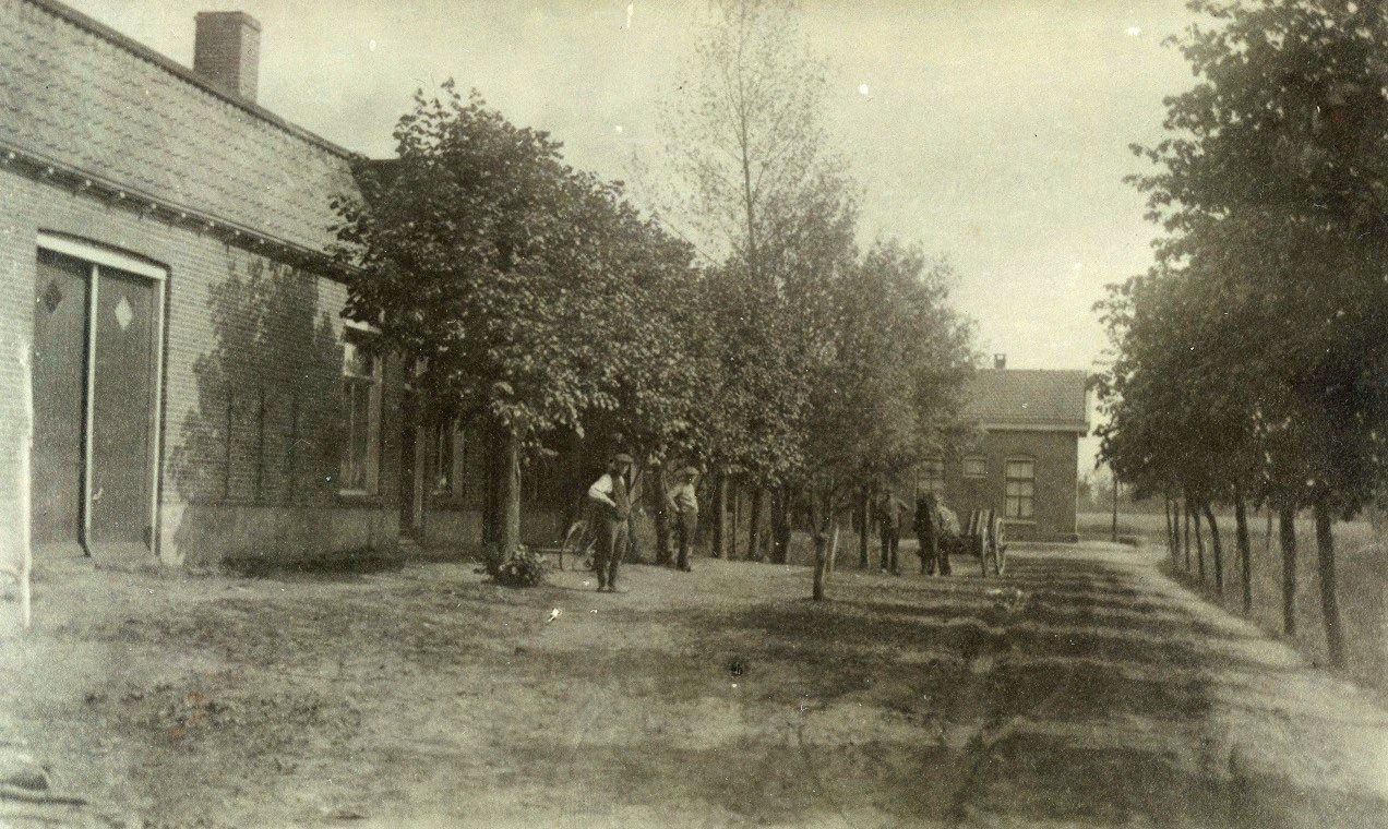 Former railroadstation Bredevoort, Aalten, Netherlands